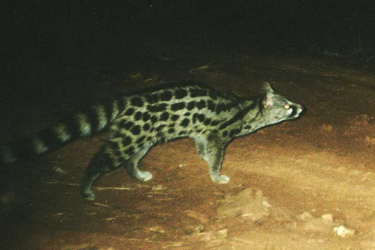 Large Spotted Genet